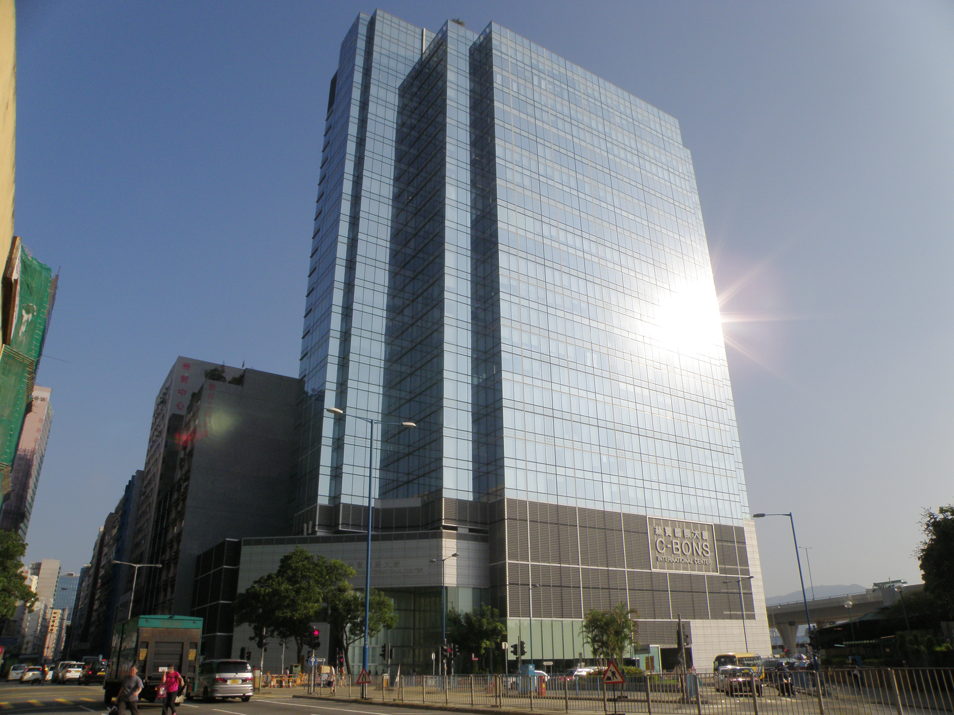 C-BONS International Centre in Ngau Tau Kok, Hong Kong.